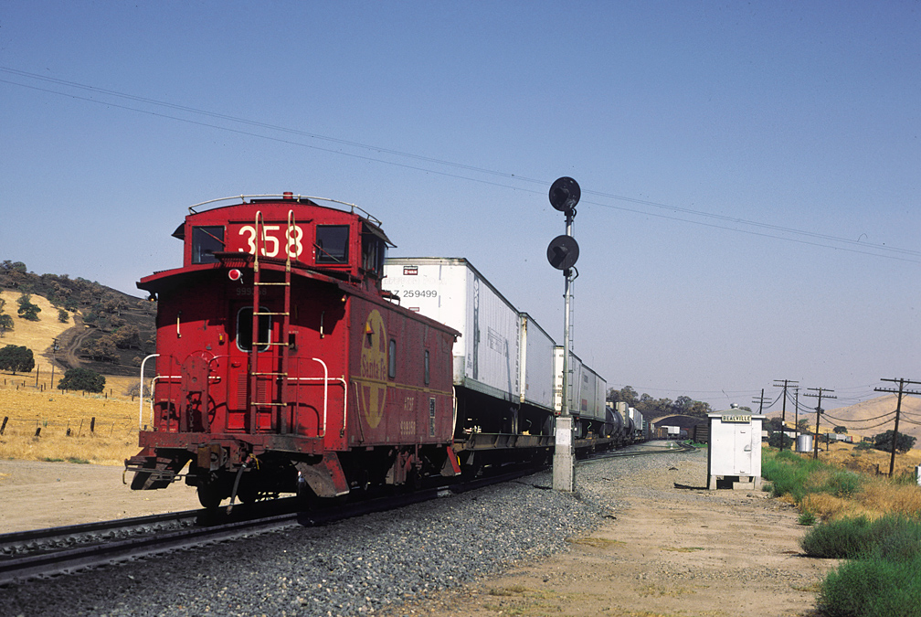 ATSF Caboose 358 at Bealville, California